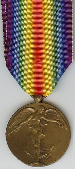 World War 1 Inter-Allied Victory Medal, Belgian variant.